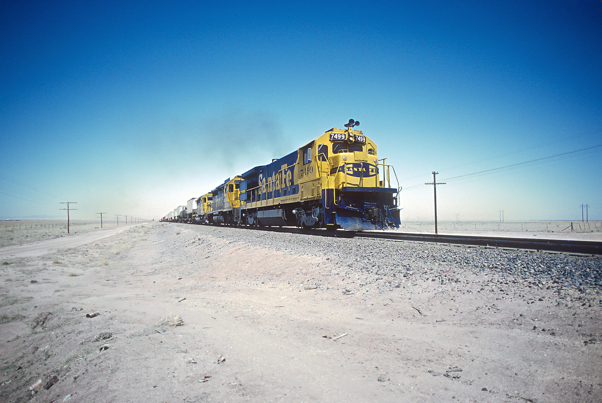 A Roger Puta Photograph